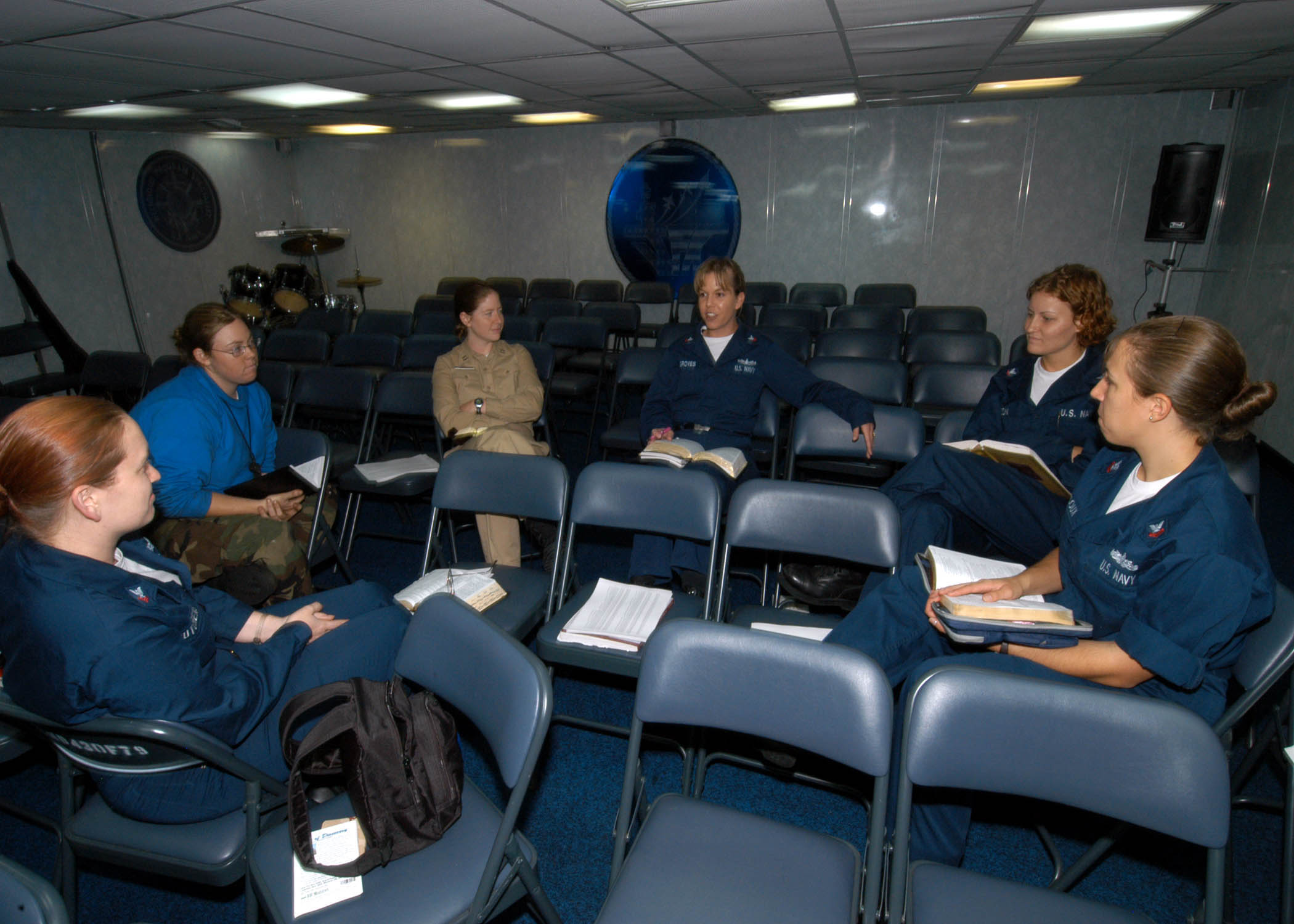 Atlantic Ocean (Jun. 15, 2004) - A women's Bible study is held in the ship's chapel aboard the conventionally powered aircraft carrier USS John F. Kennedy (CV 67). Kennedy is one of seven aircraft carriers involved in the Summer Pulse 2004 Exercise. Summer Pulse 2004 is the simultaneous deployment of seven aircraft strike groups (CSGs), demonstrating the ability of the Navy to provide credible combat across the globe, in five theaters with other U.S., allied, and coalition military forces. Summer Pulse is the Navy first deployment under its new Fleet Response Plan (FRP). U.S. Navy photo by Photographer's Mate 3rd Class Chris Weibull (RELEASED) For more information go to